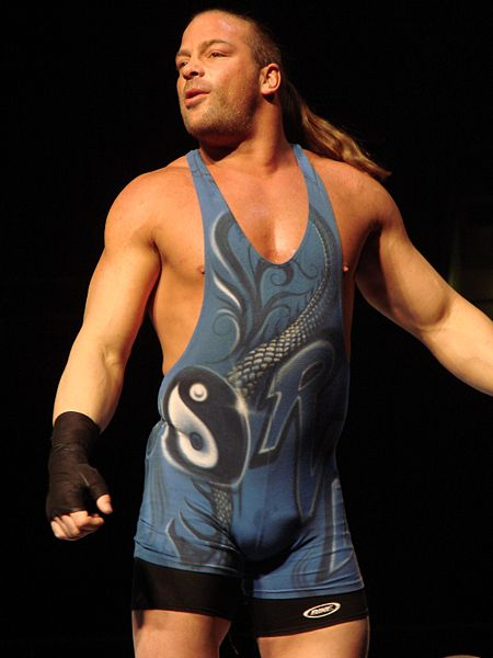 Rob Van Dam at a WWE Smackdown! live event. Champaign, IL, February 4en:2007.